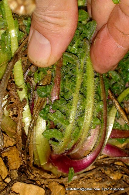 نباتات برية سورية تؤكل